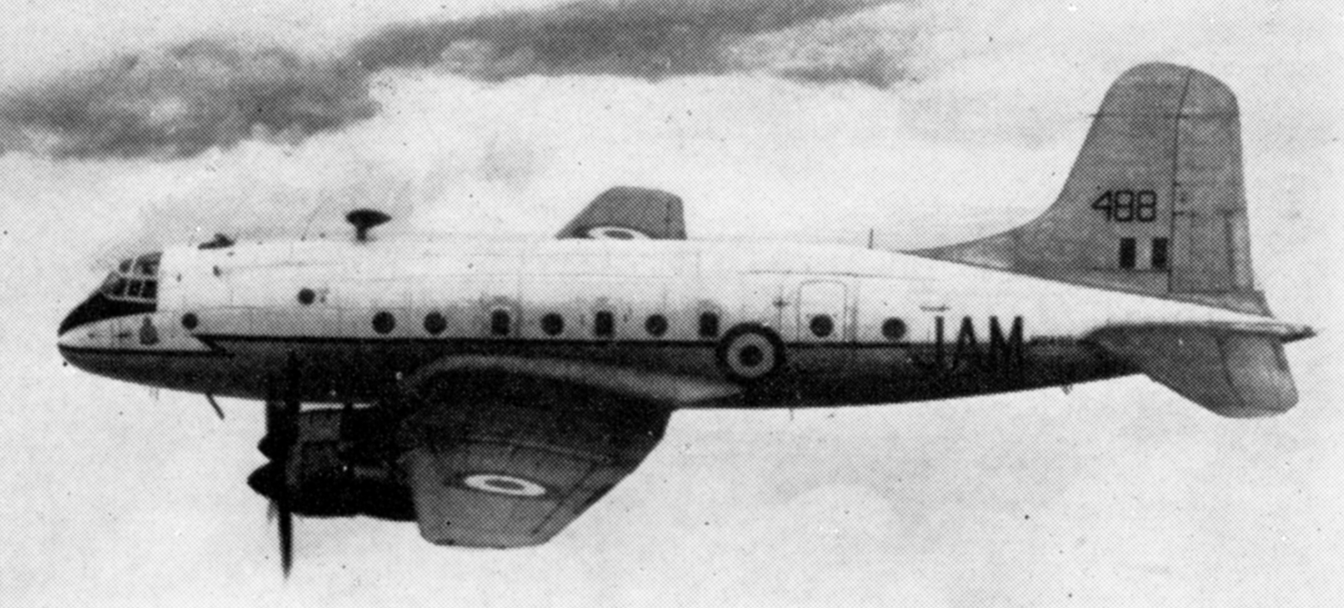 Handley Page Hastings C.2. The 1956 edition of the Observer's Book of Aircraft used 15 Crown Copyright silhouettes provided by the Controller of H.M. Stationery. An acknowledgements section on page 6 of the book identifies them by page. This image is one of those and since the publication date is pre-1957 is in the public domain.